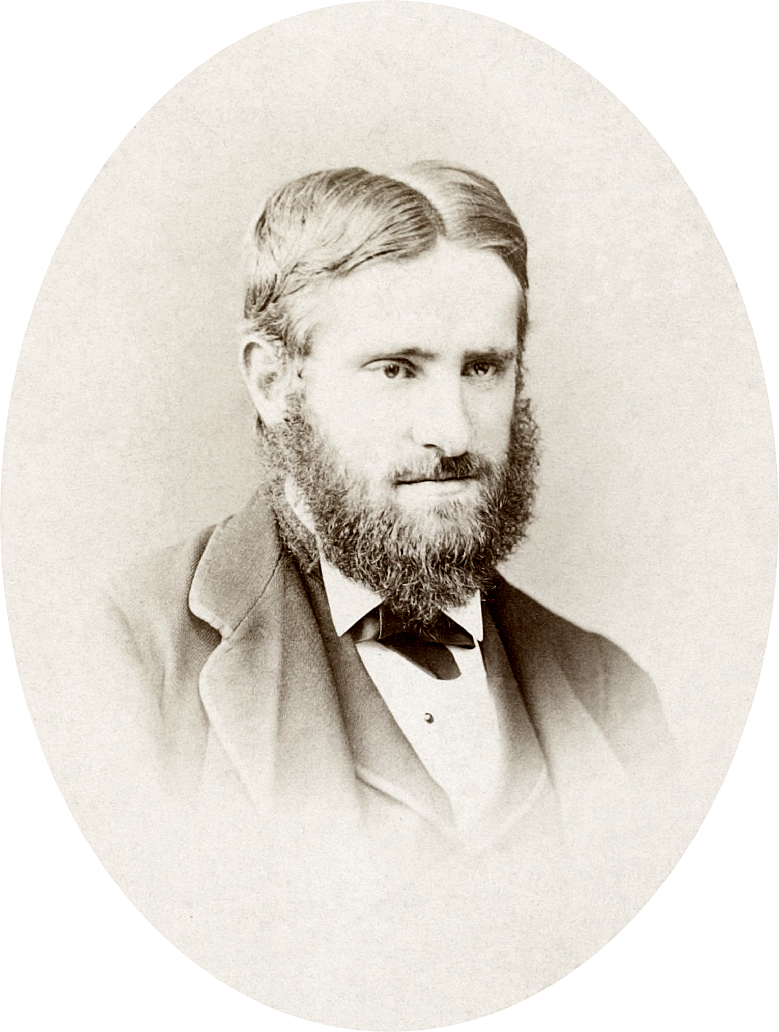 W.A.B.Coolidge, (1850 - 1926), anglo-american historian, anglican theologian, and mountaineer.